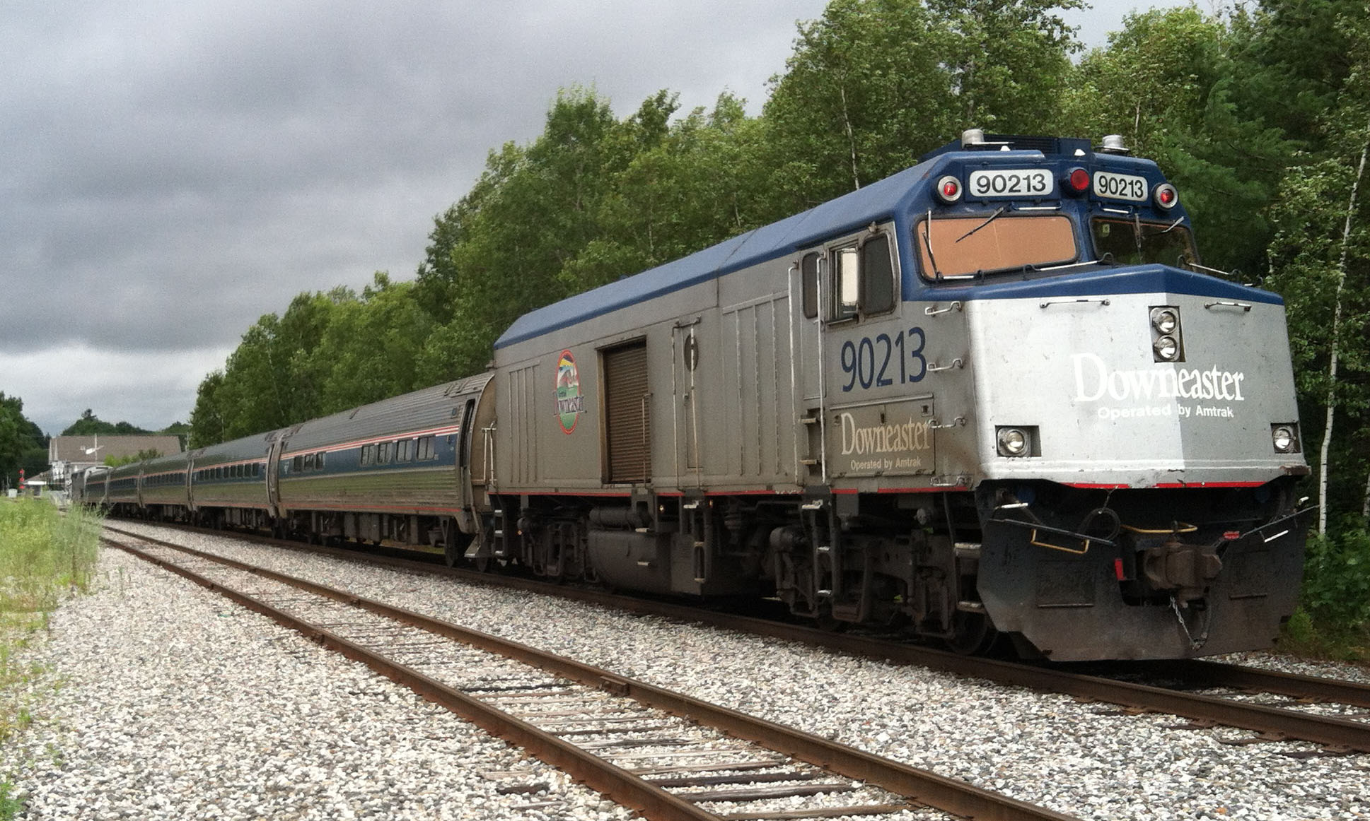 A typical Downeaster consist containing 3 or 4 coaches, 1 business/cafe car, a NPCU, and a GE Genesis P42 lays over just west of Brunswick Maine Street Station in July 2013